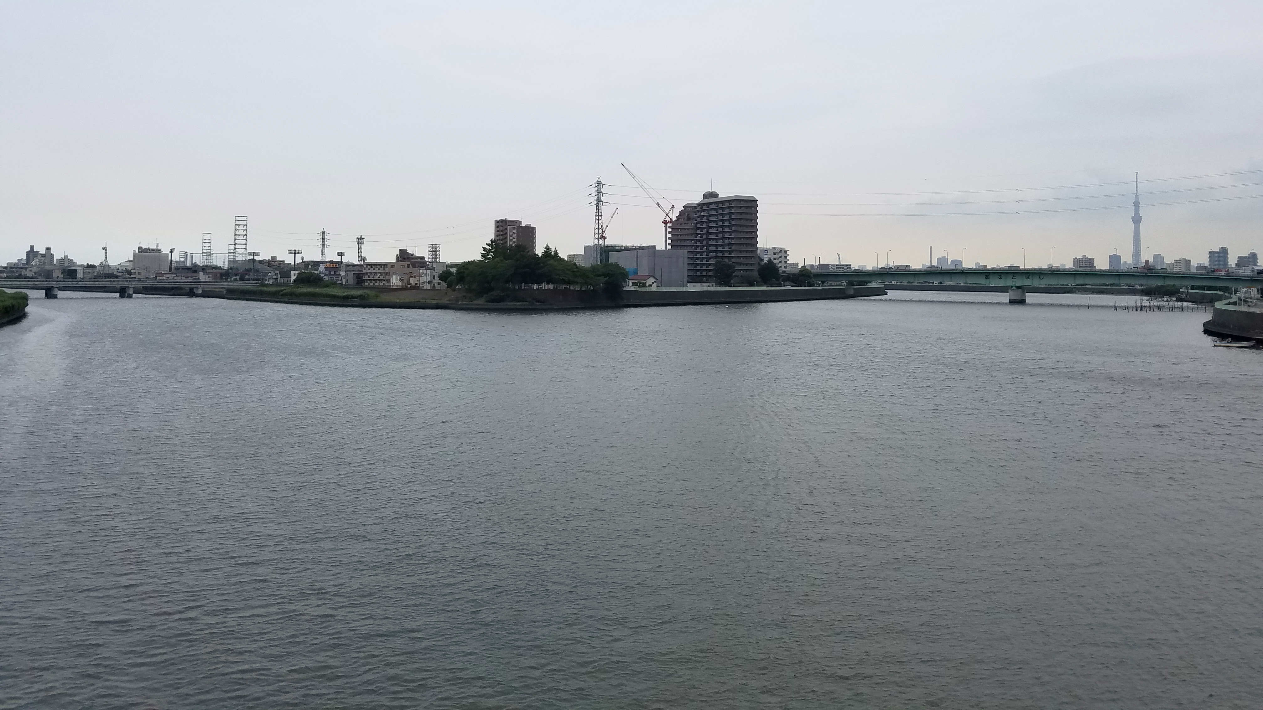 The fork of the Shin-Nakagawa river (left side) and the Nakagawa river(right side)